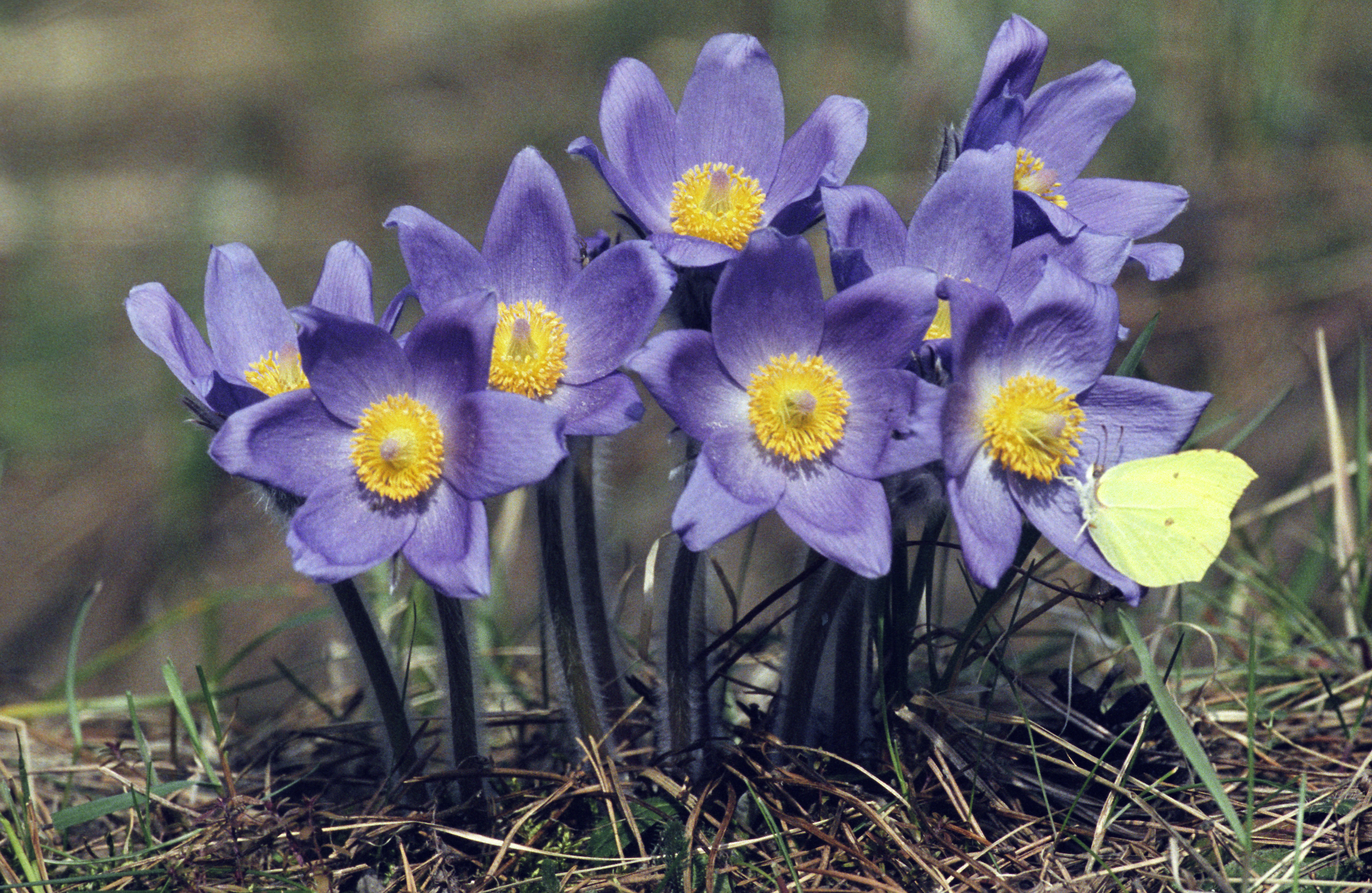 Pulsatilla patens, Poland, The Biebrza Marshes